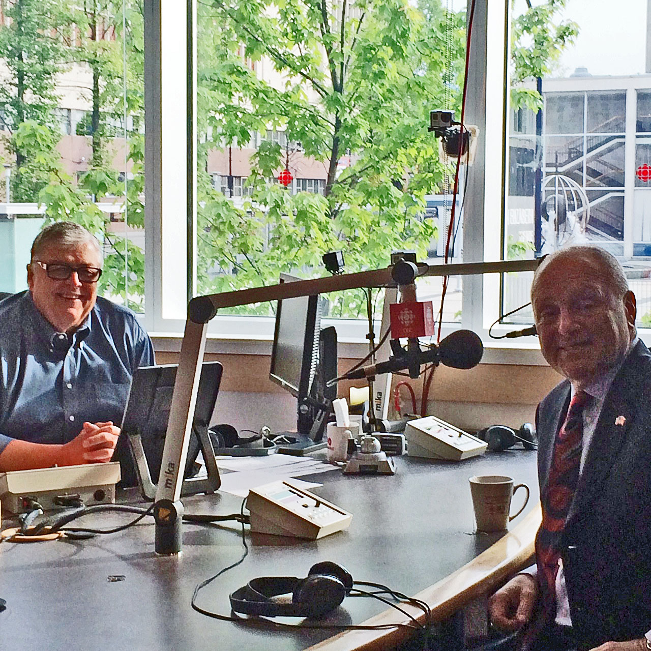 US Embassy Canada interview with Rick Cluff